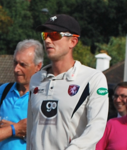 Joe Denly at the Kent County Cricket Ground, Beckenham in September 2016